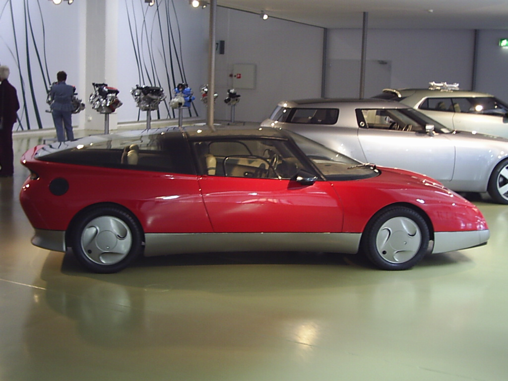 The concept car Saab EV-1 from 1985. sv: Bilen finns på Saabs bilmuseum i Trollhättan. Photographer:Tubaist. first upload: 19:54, Juni 15, 2005 - Wikipedia by the photographer